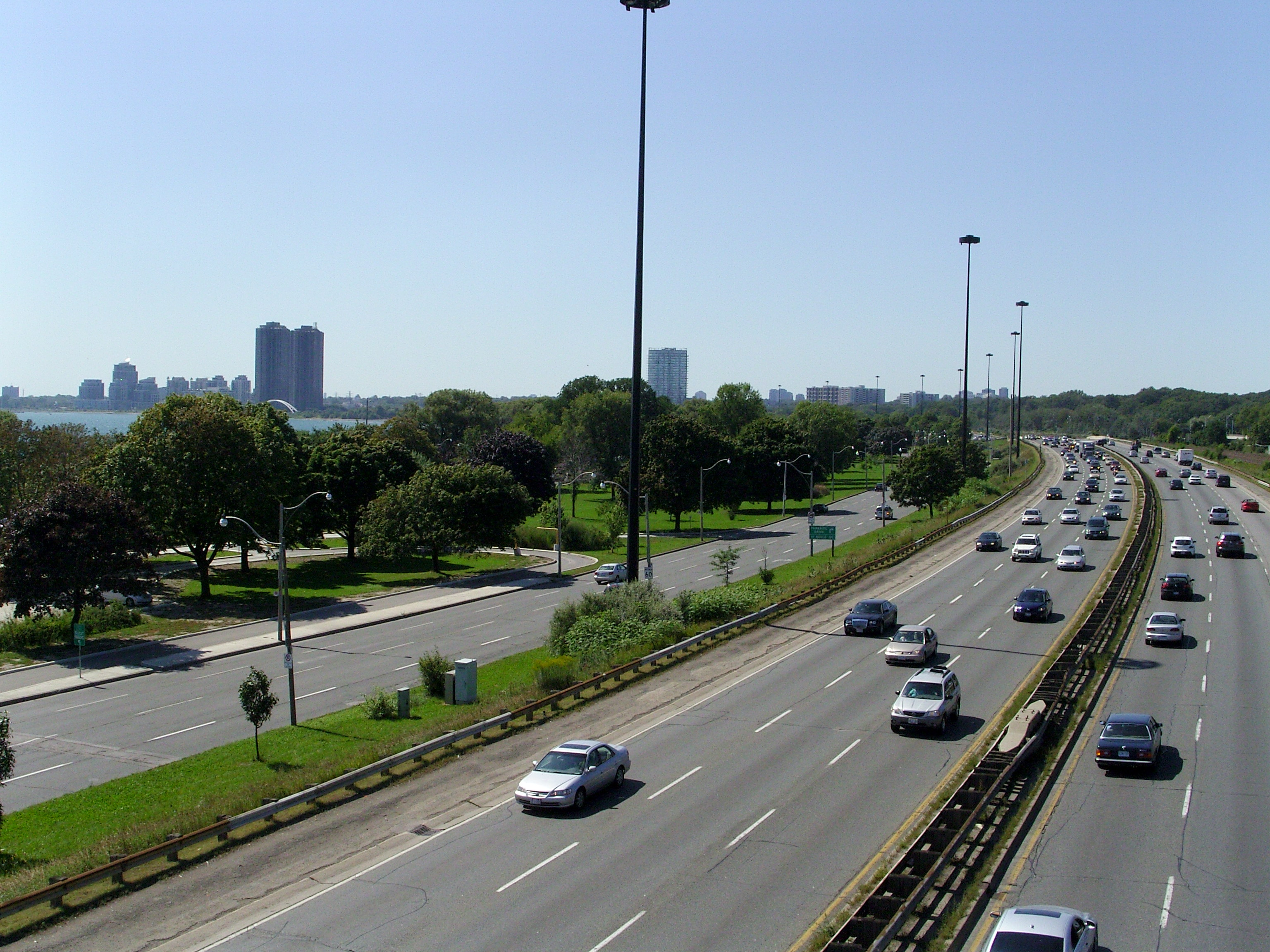 View of Lake Shore Boulevard and the Sunnyside area from pedestrian bridge. Toronto, Canada.